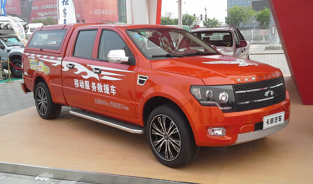 Kawei Auto K1 photographed at the Auto China 2014, Beijing, China.